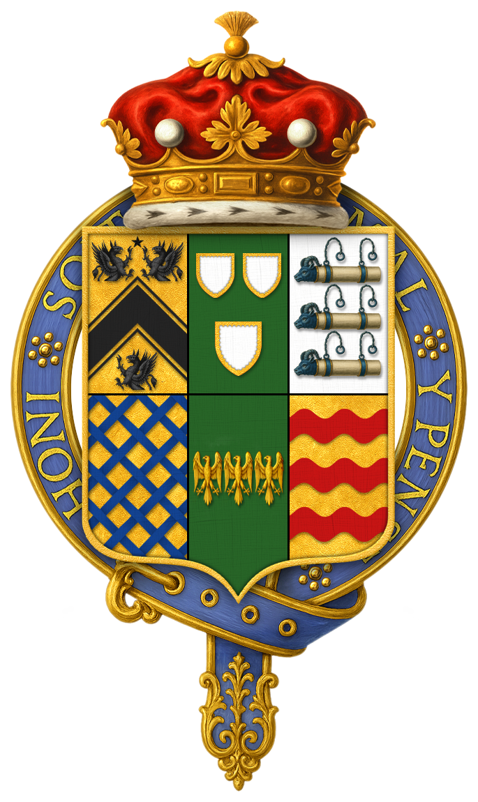 Garter encircled shield of arms of Charles Wynn-Carington, 1st Marquess of Lincolnshire, KG, GCMG, PC, as displayed on his Order of the Garter stall plate in St. George's Chapel.